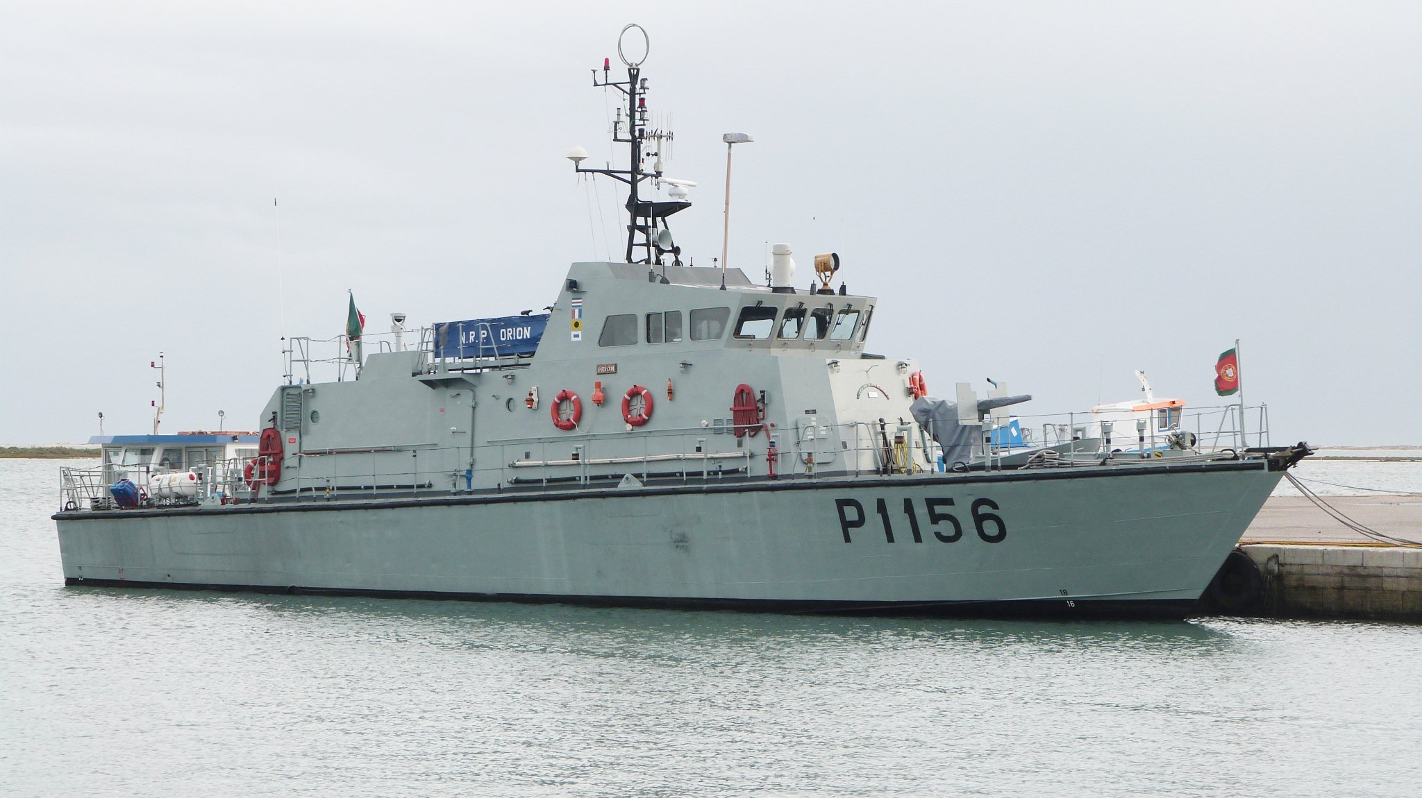 N R P Orion The Centaur Class of surveillance boats originated in the Class Argos.